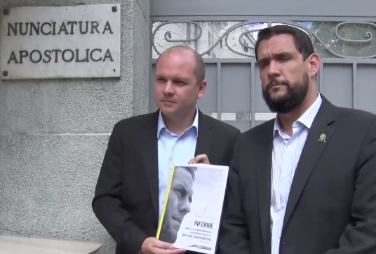 Venezuelan National Assembly representatives visit the Holy See representative in Caracas to plead a judgement of injustice in the treatment of Juan Requesens by the Maduro government through August 2018